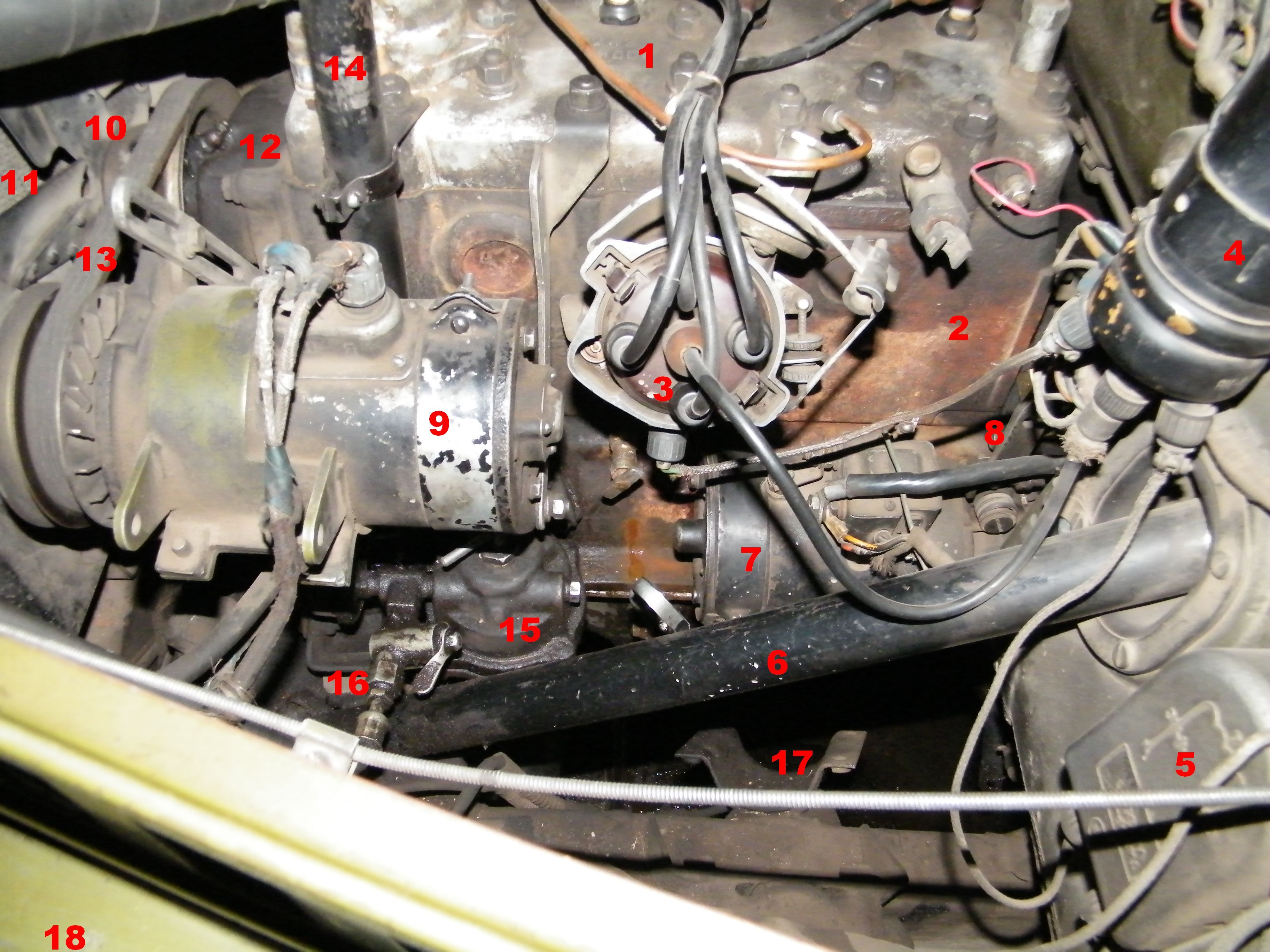 Двигатель ГАЗ-69